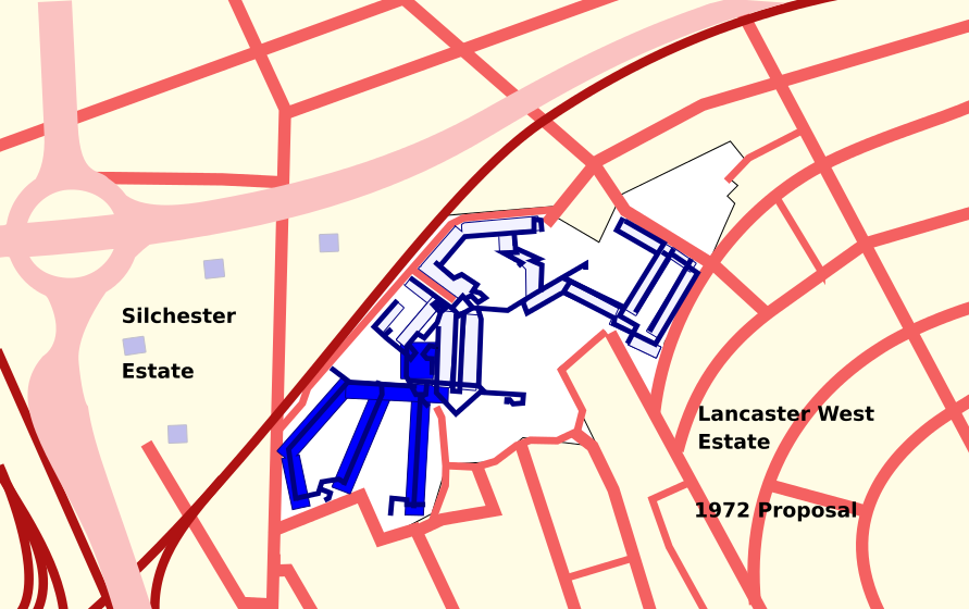 Site plan of the 1972 proposals for the estate connected with walkways at first floor level. Lancaster West Estate. The finger blocks with the internal walkways and Grenfell Tower were completed in Phase 1, but the plan was abandoned and the walkway network (and the light blue buildings) never completed. An alternative plan was adopted. Map sourced from Contantine Gras